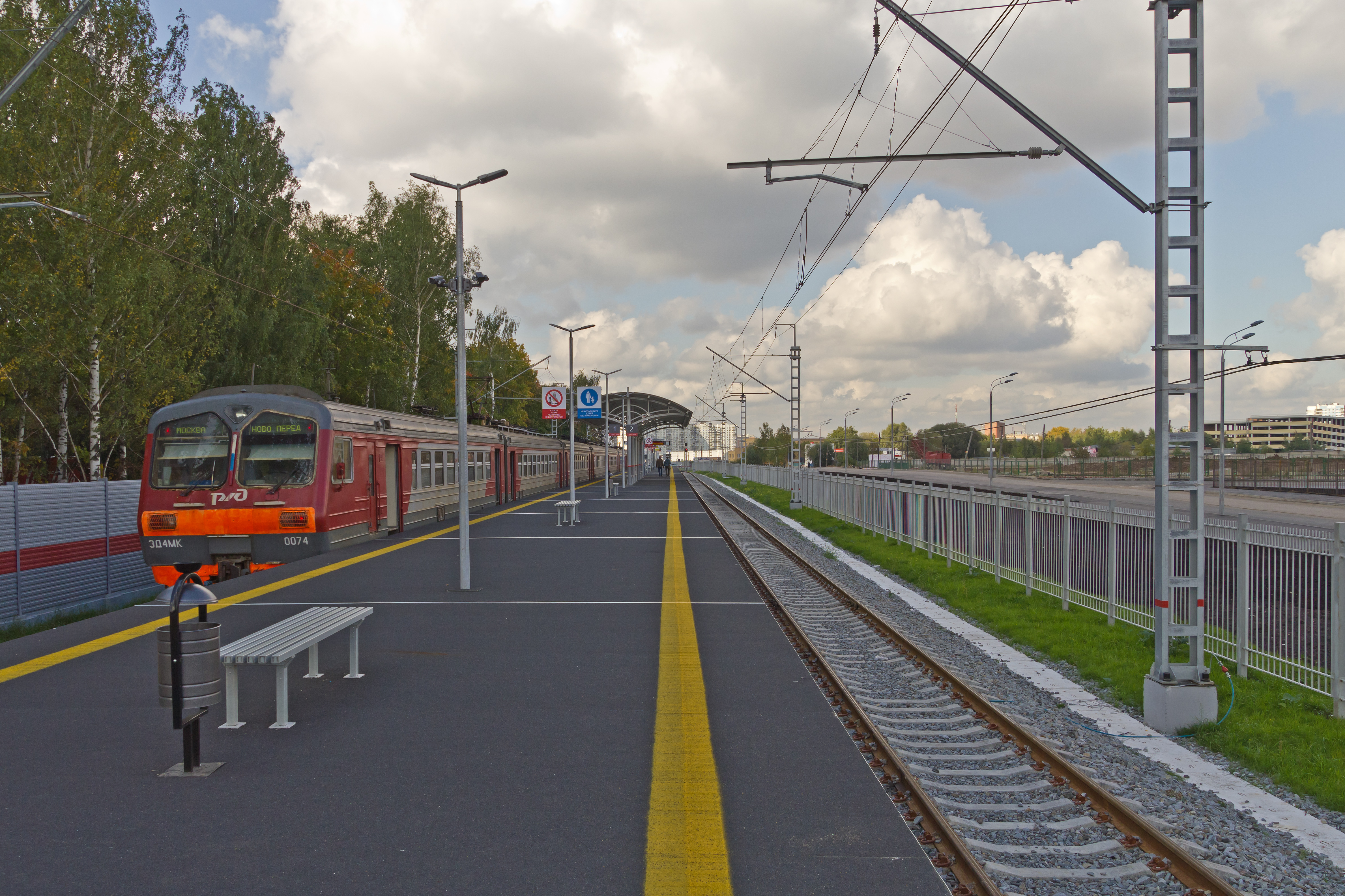 Moscow, Russia. Novo-Peredelkino station of suburban railway.